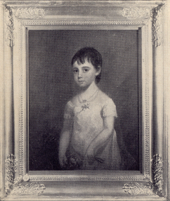 Childhood portrait of Catherine Cornelia Prather Humphrey by Matthew Harris Jouett.